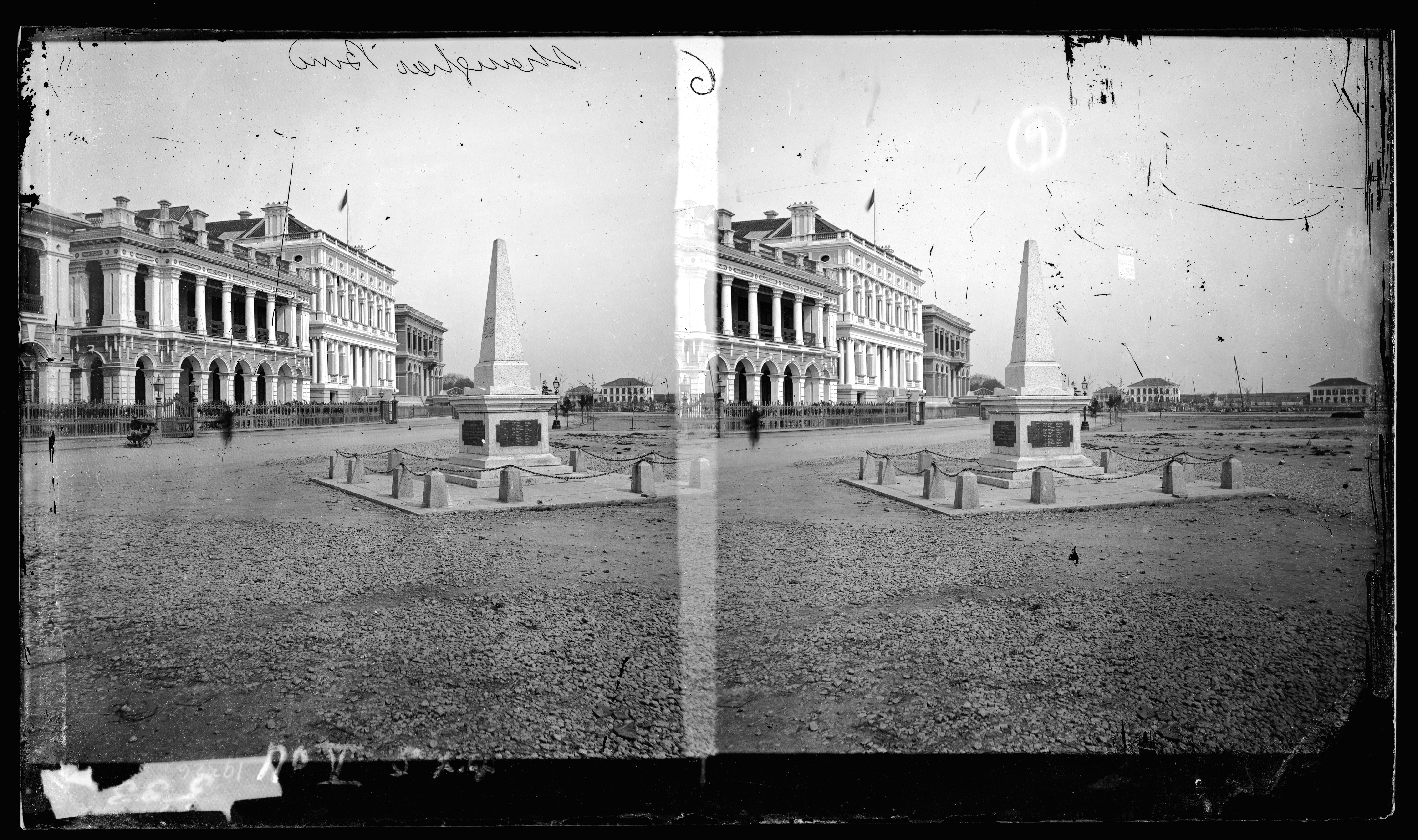 Shanghai, Kiangsu province, China. Photograph by John Thomson, 1871. Iconographic Collections Keywords: J. Thomson